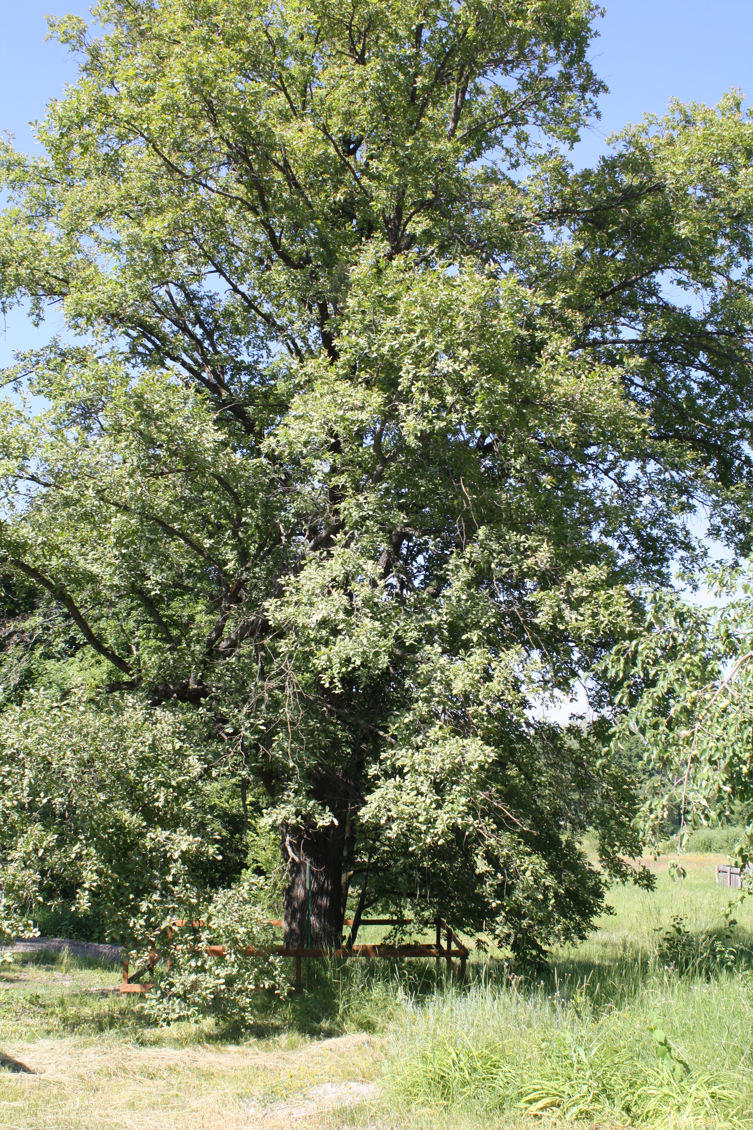 Conjoined oak and linden in Voronezh Biosphere Reserve.jpg This is an image of the Biosphere Reserve: Voronezhskiy